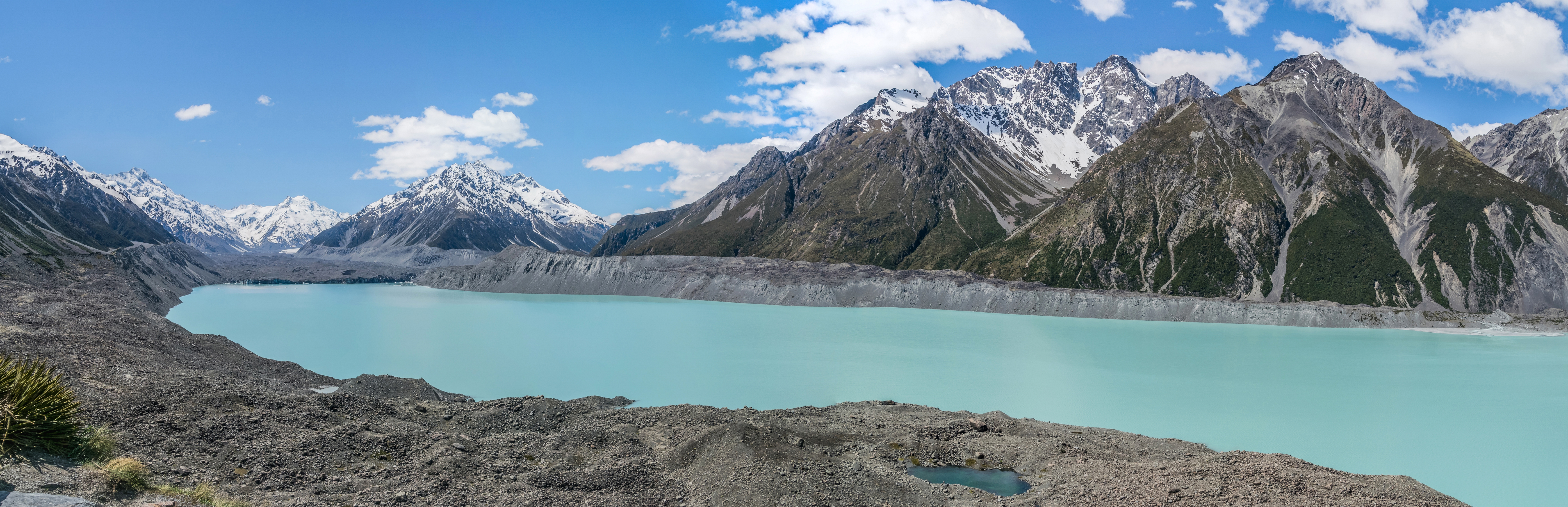 Panorama of Tasman Lake in Aoraki/Mount Cook National Park, South Island of New Zealand.